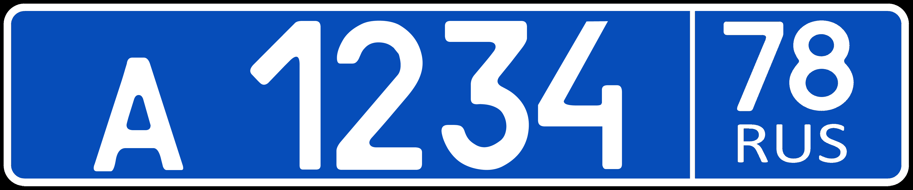 License plate using by police.